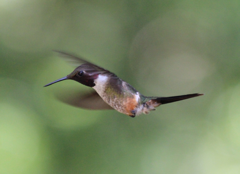 A magenta-throated woodstar hummingbird.